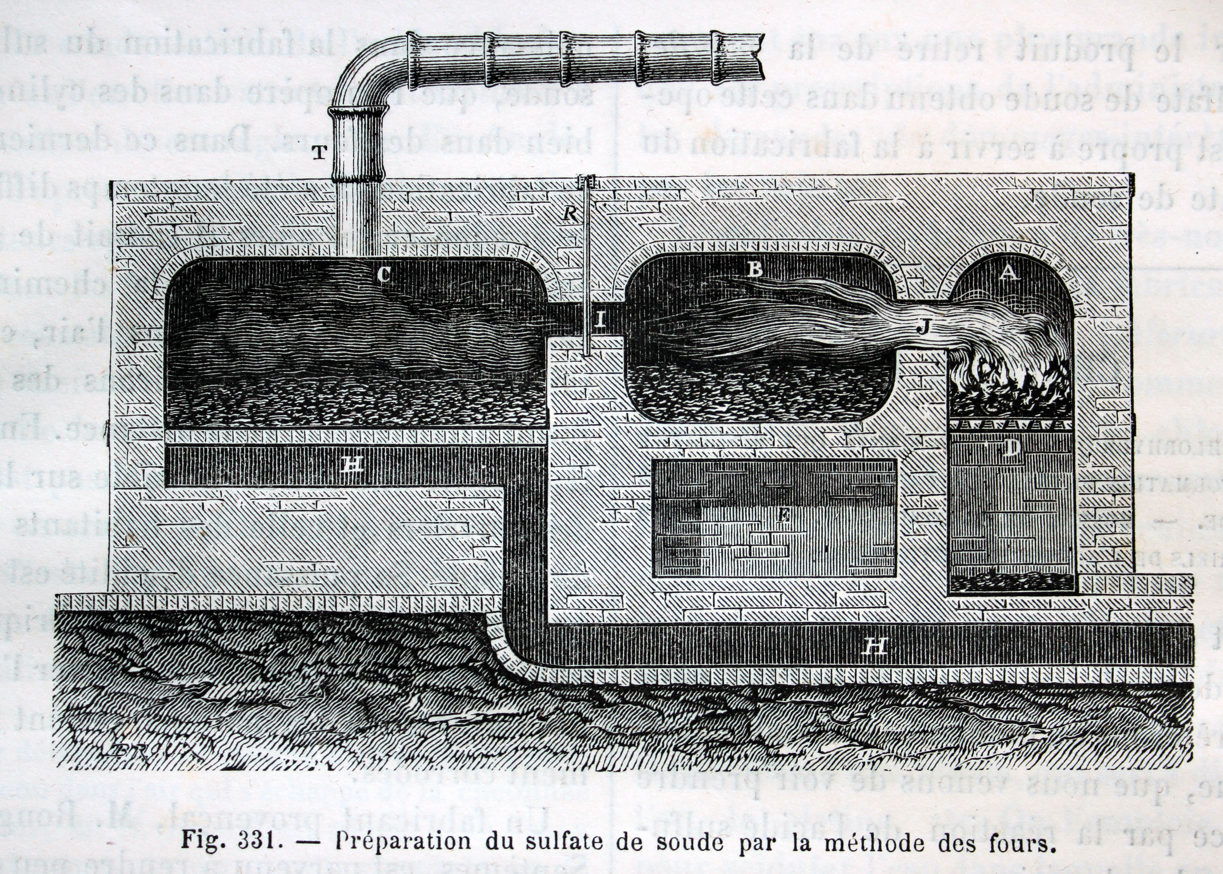 Preparation of sodium sulfate using an oven"